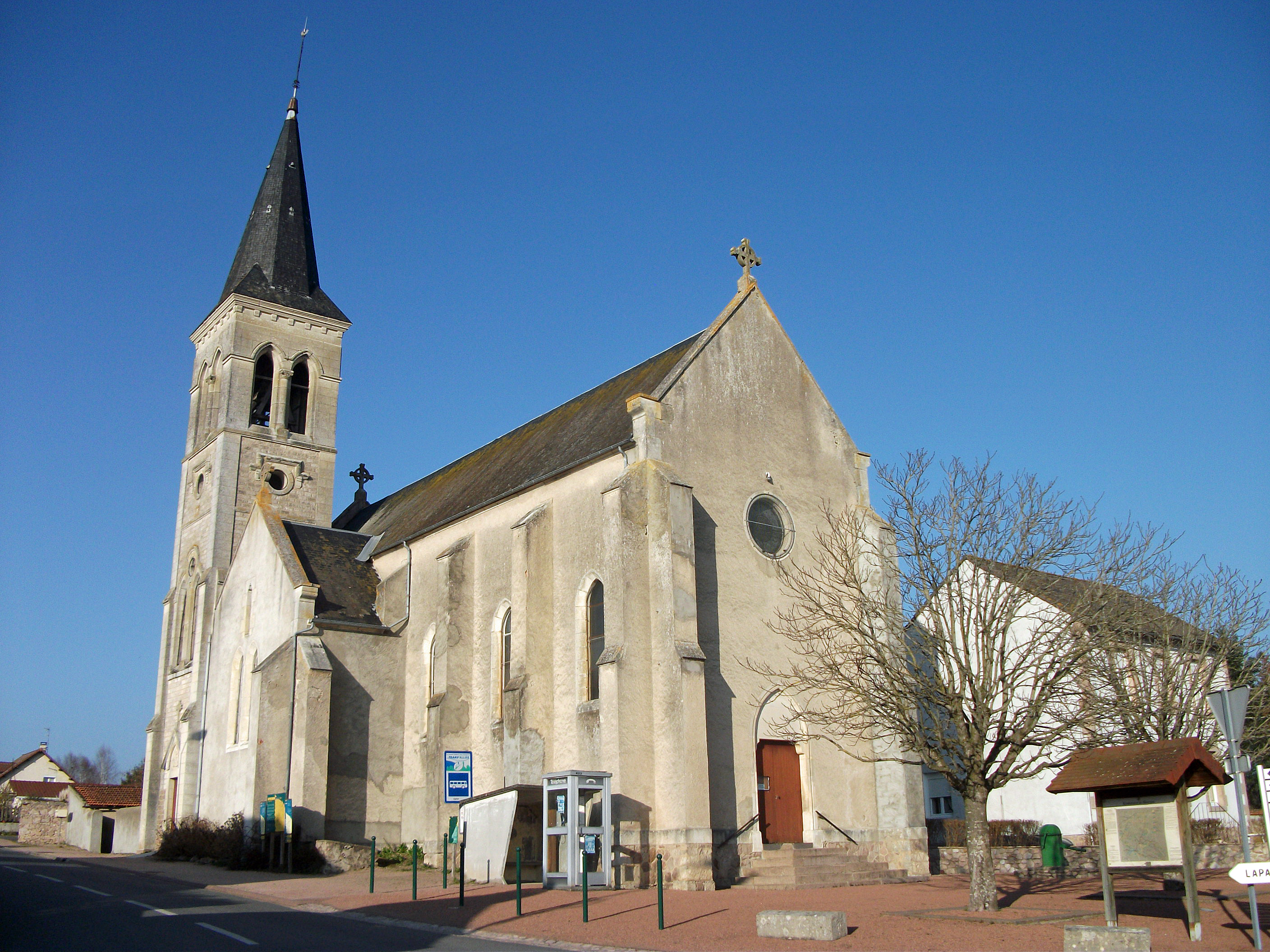 Church in Billezois, Allier [10386]